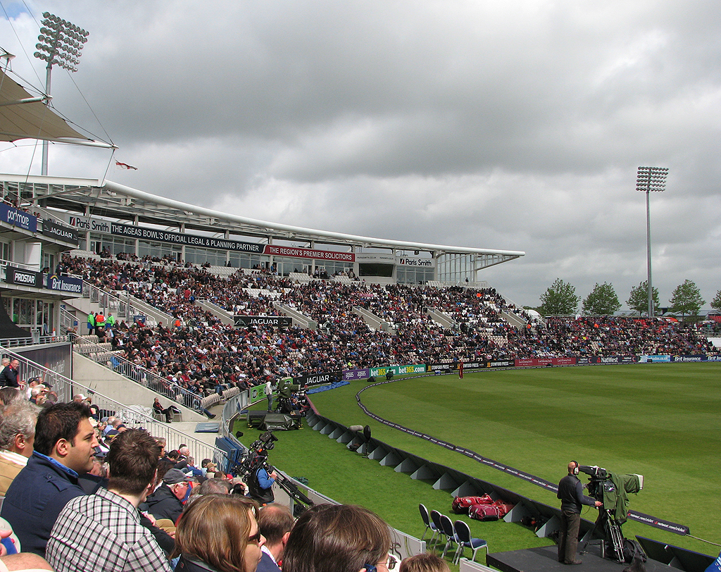 A view of the members' stand to the north of the Pavilion during the first one-day international between England and West Indies (an England win). One of the TV camermen is in the bottom right-hand corner. The four empty chairs were used intermittently by the West Indies twelfth man and other substitutes. (Hampshire's Rose Bowl ground is currently named after its sponsor, an insurance company. Should you be looking at this picture in years to come, it may well be called something else.)